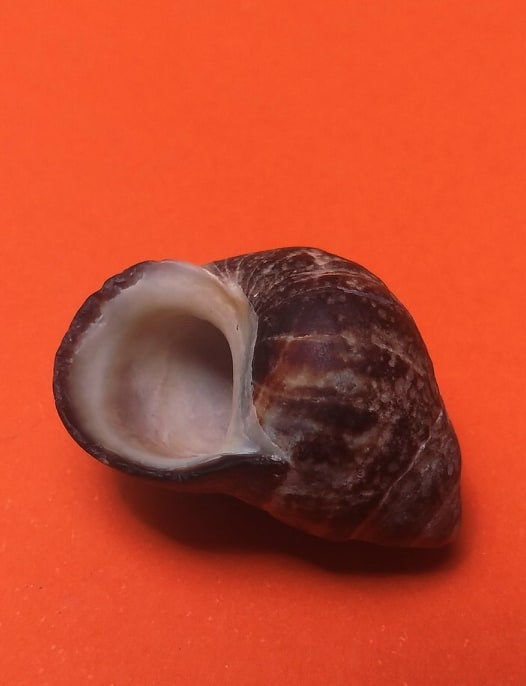 Underside of the shell of coastal marine mollusk Littorina littorea (Linnaeus, 1758)[1], the edible periwinkle; from Mediterranean Sea, north Atlantic, English Channel, North Sea and West Baltic. CAMPBELL, Andrew C.; NICHOLLS, James (1980). The Hamlyn Guide to the Seashore and Shallow Seas of Britain and Europe. England: The Hamlyn Publishing Group. p. 150. 320 pp. ISBN 0-600-34019-8